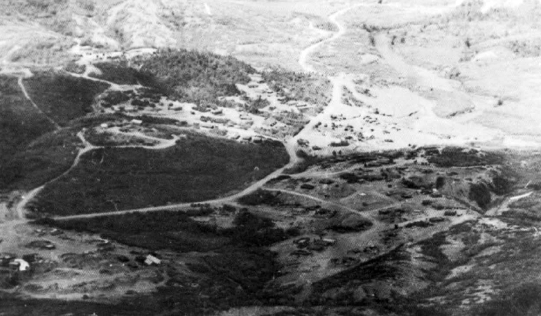 View of the U.S. Marine Corps Ca Lu Combat Base on the Quang Tri river, south of "The Rockpile" on Highway 9, Quang Tri province, Vietnam, in 1968.